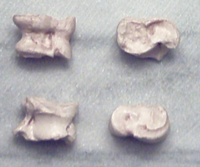 Four sides of a knucklebone